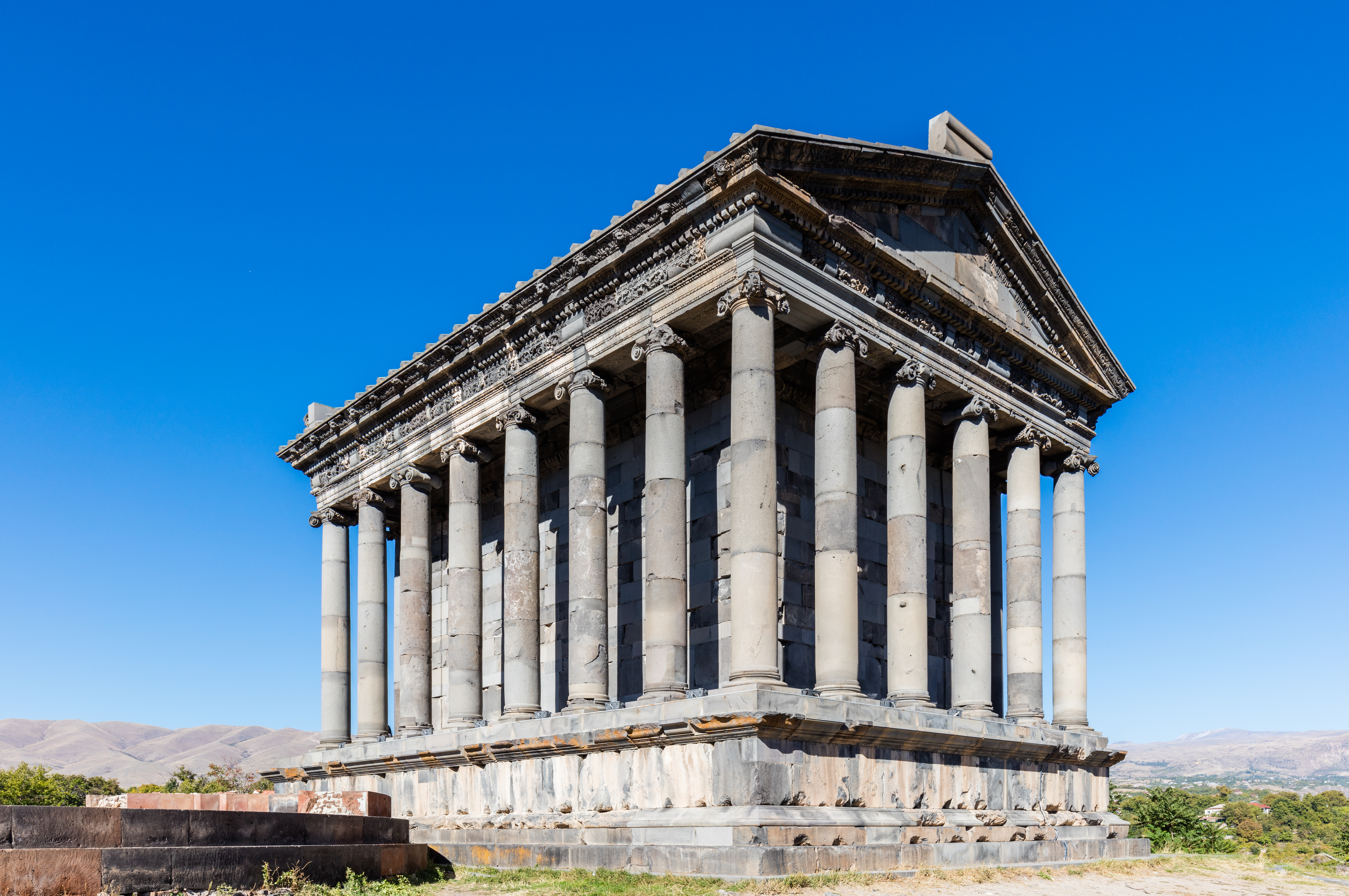 Garni Temple, Armenia